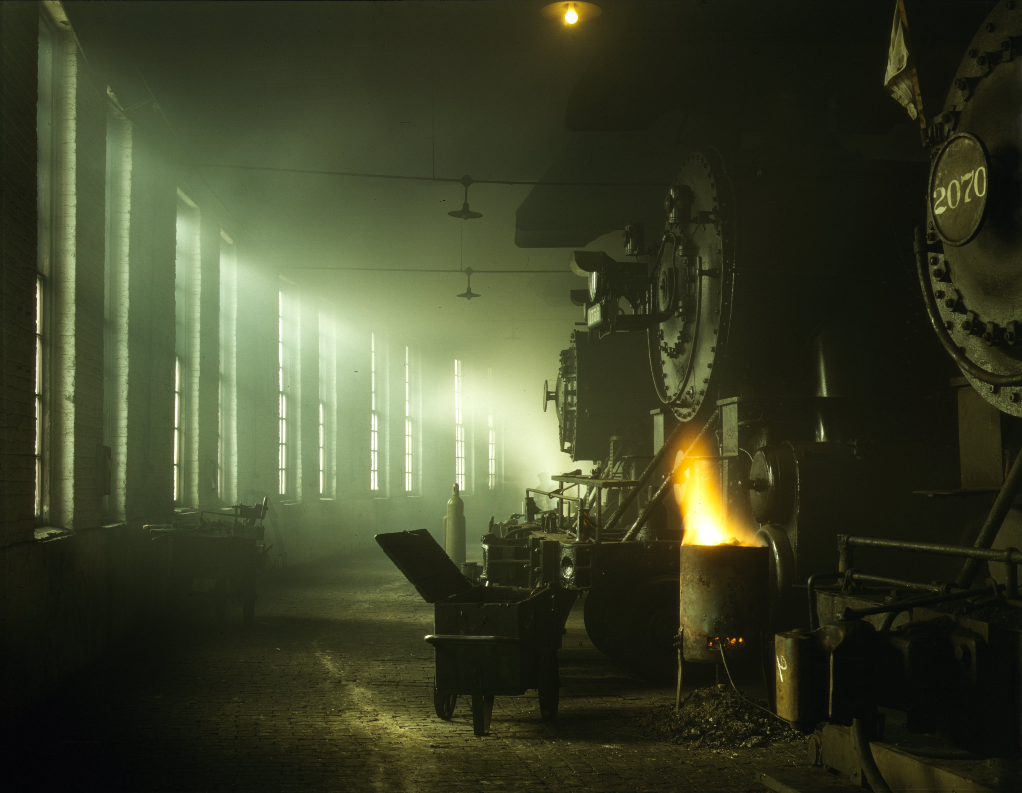 Steam locomotives of the Chicago & Northwestern Railway in the roundhouse at the Chicago, Illinois rail yards.